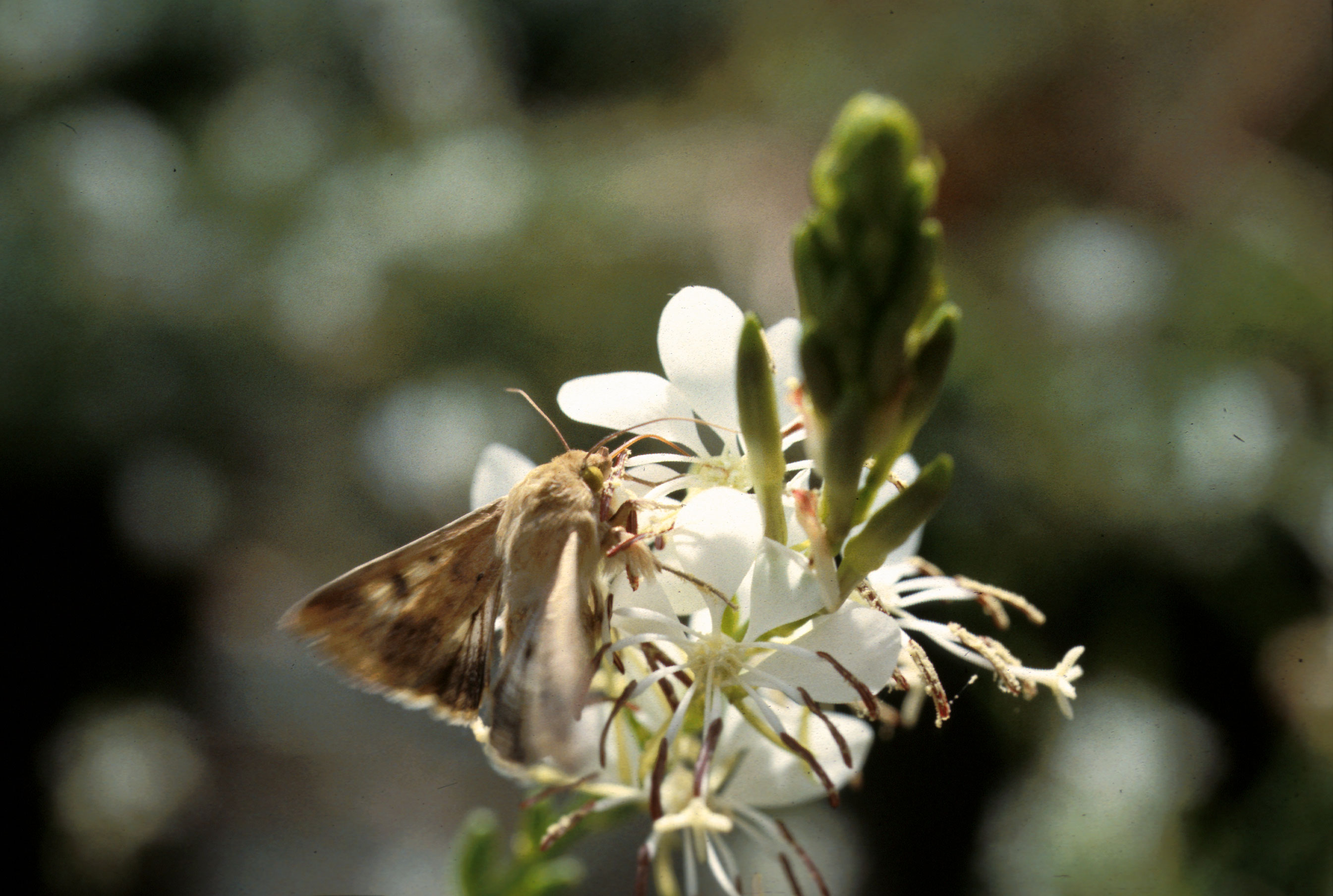 Corn earworm moth from Image Number K8404-20 A corn earworm moth sips nectar from a night-blooming Gaura plant. Photo by Juan Lopez.